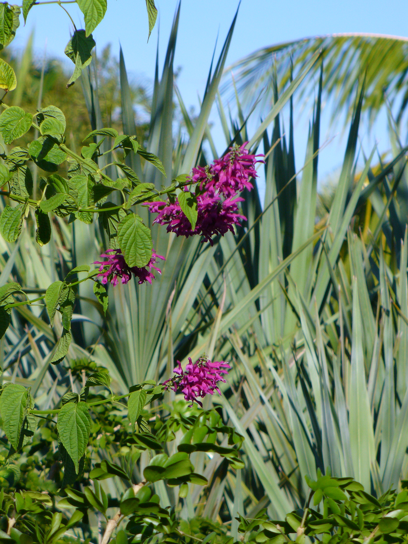 South Miami, Florida, USA. That's the silver form of Serenoa repens in the background, and Guiacum sanctum in the lower foreground.